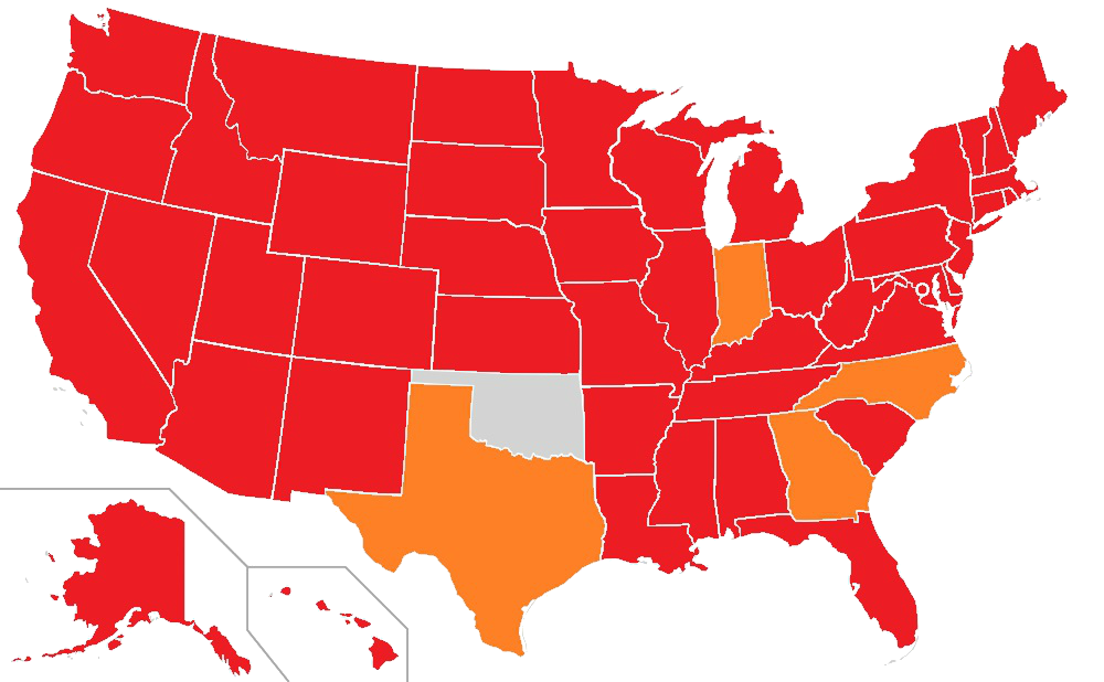 Red indicates ballot line Orange indicates write-in Grey indicates no ballot access